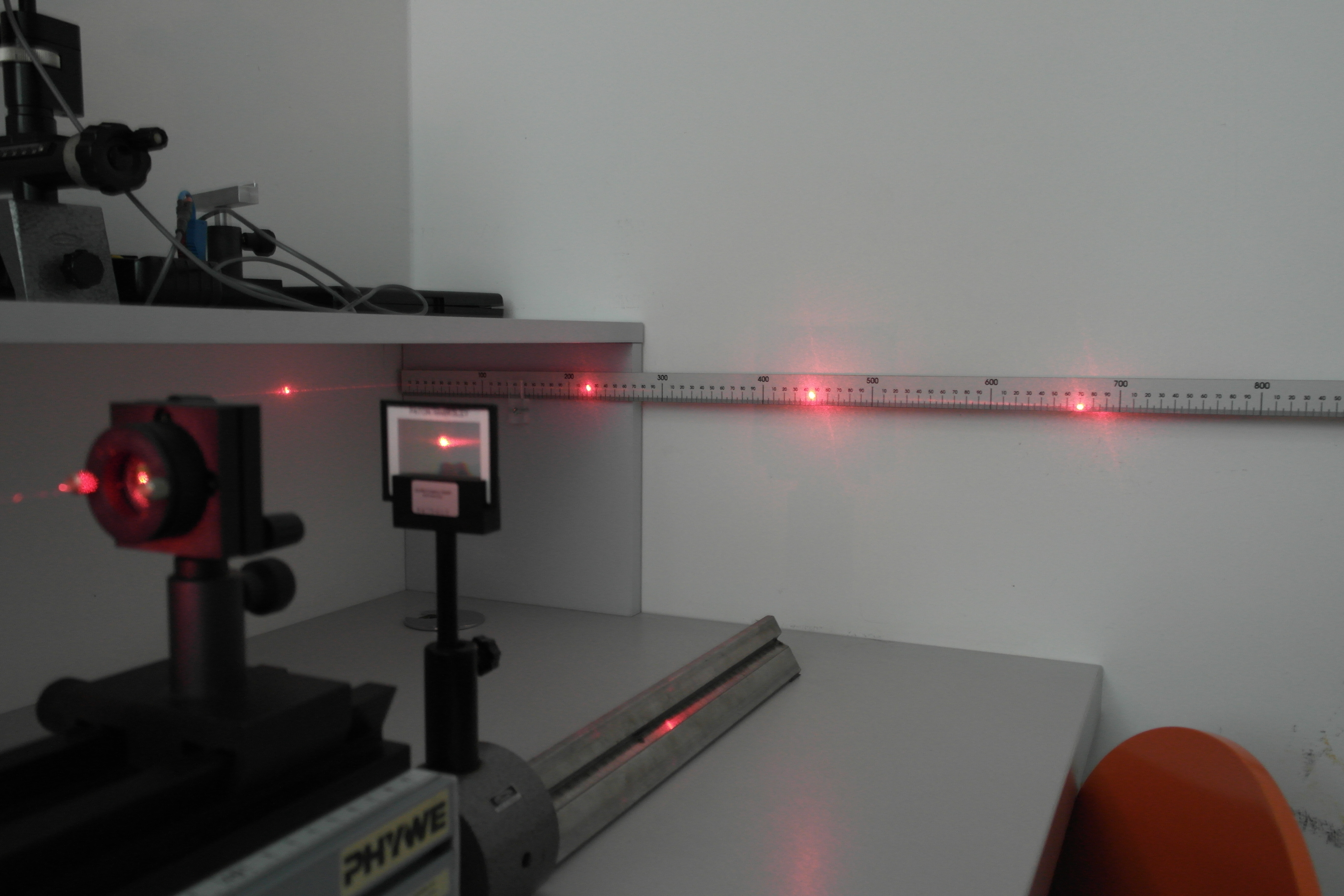 A He-Ne laser beam is shot through a diffraction grading, creating a diffraction pattern on the ruler, mounted on the wall. The picture is of an experiment set up, used to measure the wavelength of the laser light. The picture was taken at XLAB Experimental Laboratory, Göttingen, Germany